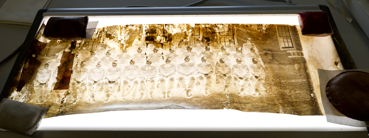 Light box displaying a nitrate photograph negative panorama which is suffering from deterioration. Image shows a military unit in front of a stone building / Négatif panoramique sur support de nitrate, montrant des signes de détérioration, affiché sur un Title / Titre : Light box displaying a nitrate photograph negative panorama which is suffering from deterioration. Image shows a military unit in front of a stone building / Négatif panoramique sur support de nitrate, montrant des signes de détérioration, affiché sur un négatoscope. L’image représente une unité militaire devant un édifice en pierre Date(s) : June 21, 2011 / 21 juin 2011 Credit / Mention de source : Library and Archives Canada / Bibliothèque et Archives Canada Description : Nitrate Film Preservation Facility / Centre de préservation de pellicule de nitrate